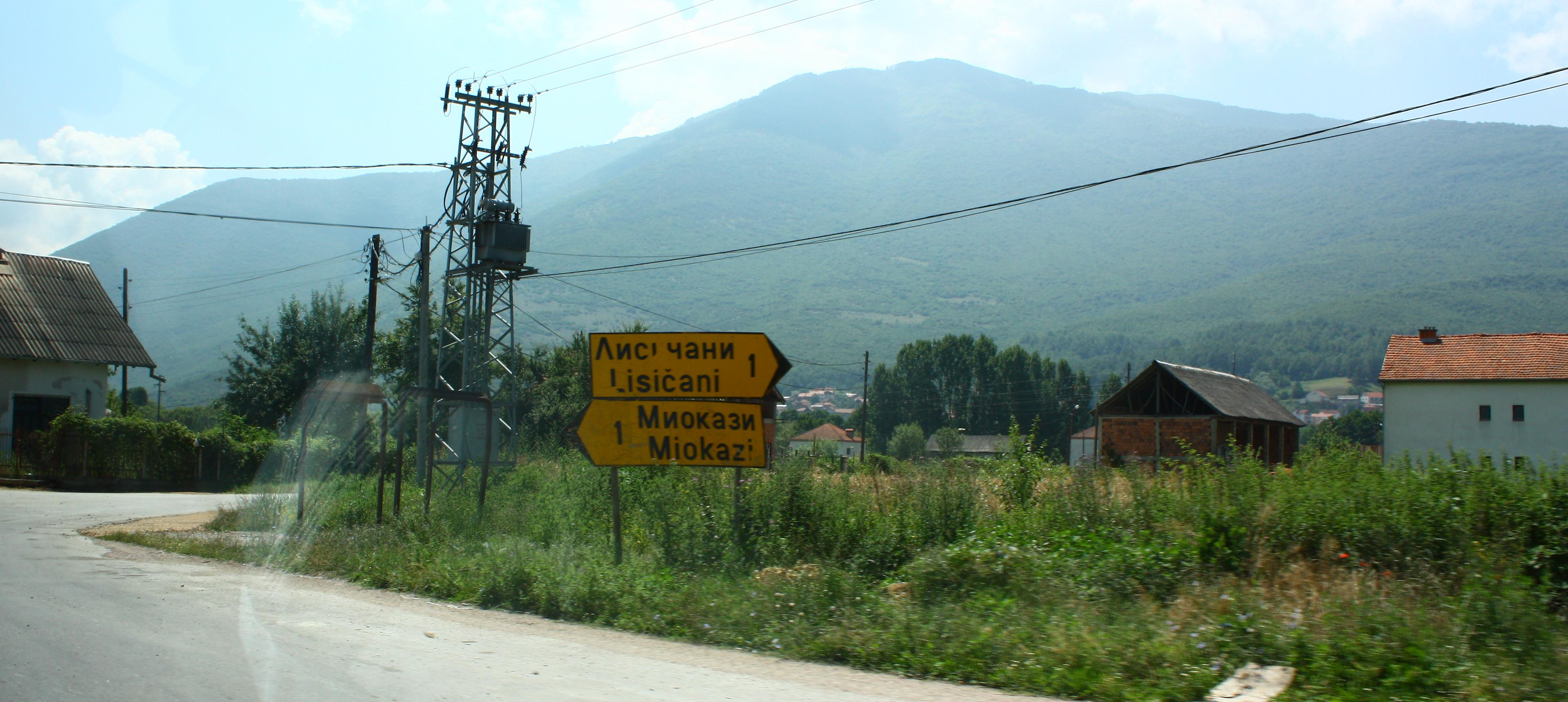 Lisičani, Macedonia